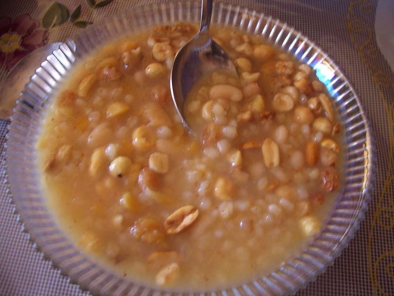 Cuisine of Ashura day.